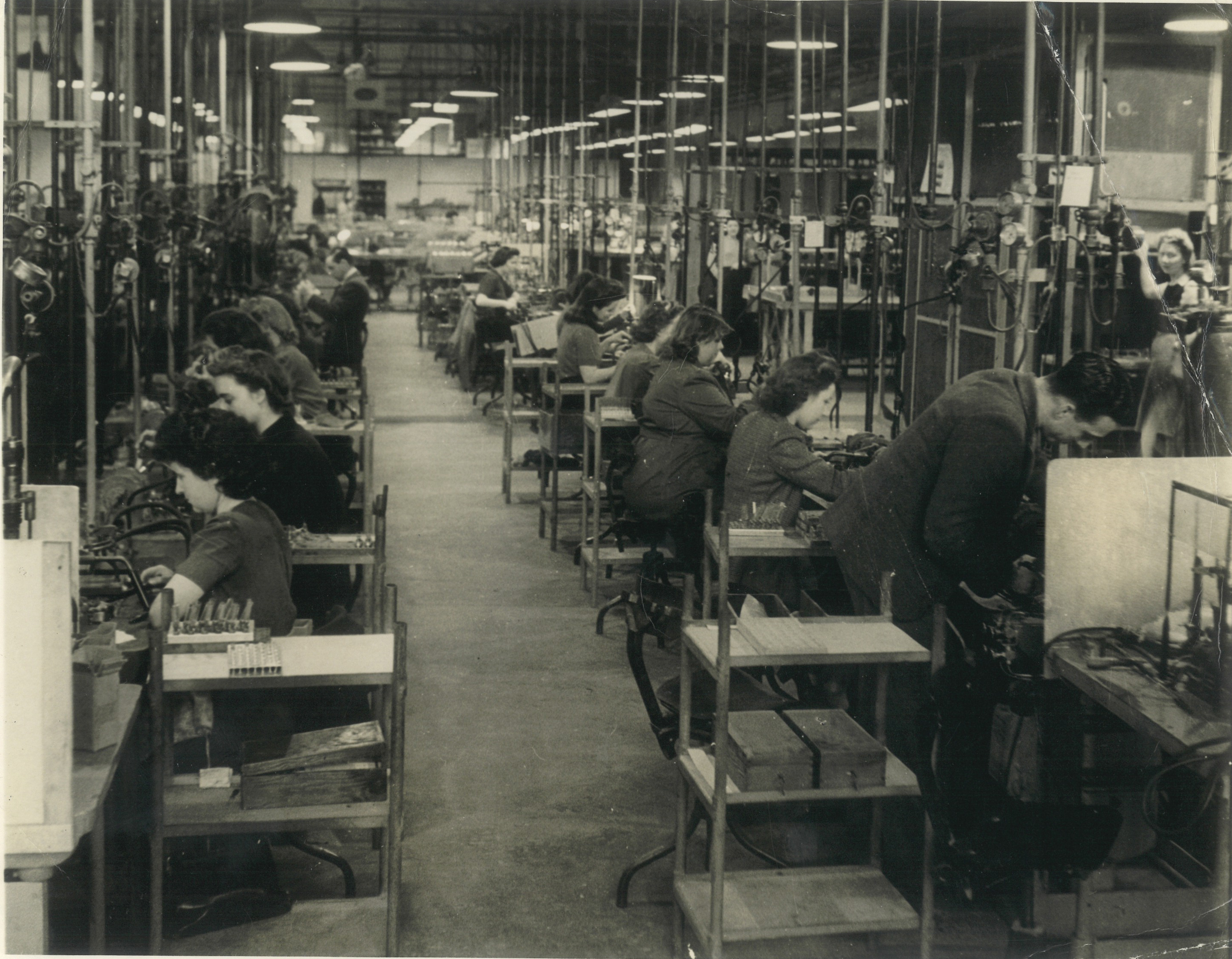 Women undertaking assembly work at the Marconi New Street factory in Chelmsford